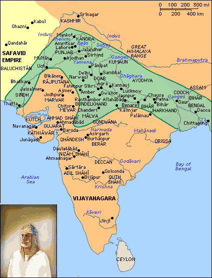 Map of Sher Shah's Suri Empire